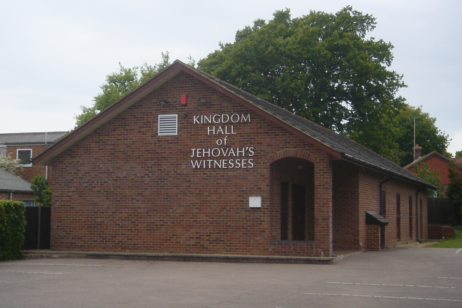 Jehovah's Witnesses Kingdom Hall, Victoria Road, Burgess Hill, District of Mid Sussex, West Sussex, England. Compare this with the picture taken in September 2012, which shows a dramatically different front one-third of the building.